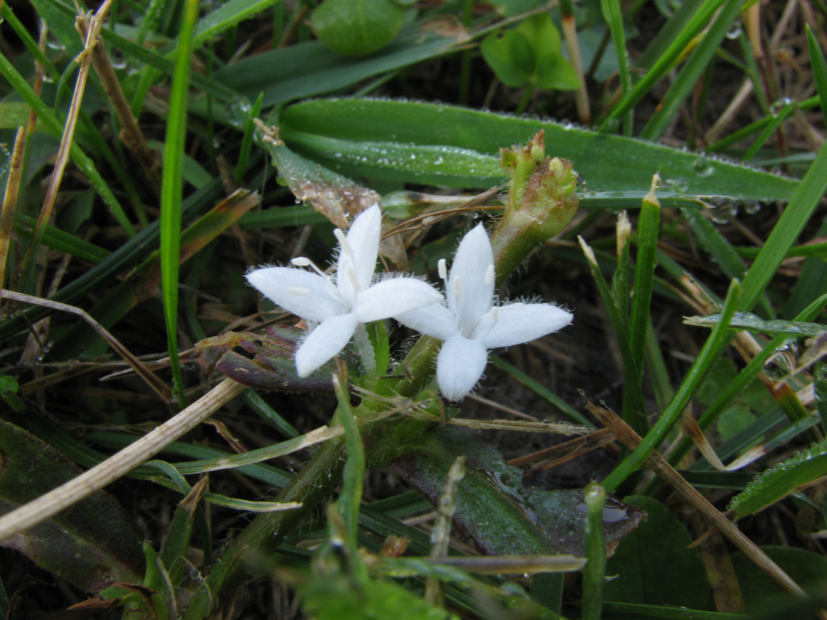 Buttonweed flowers